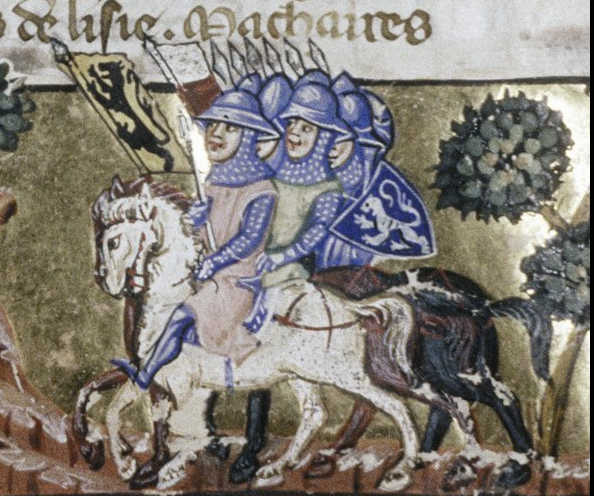 Crusaders arrive at Constantinople